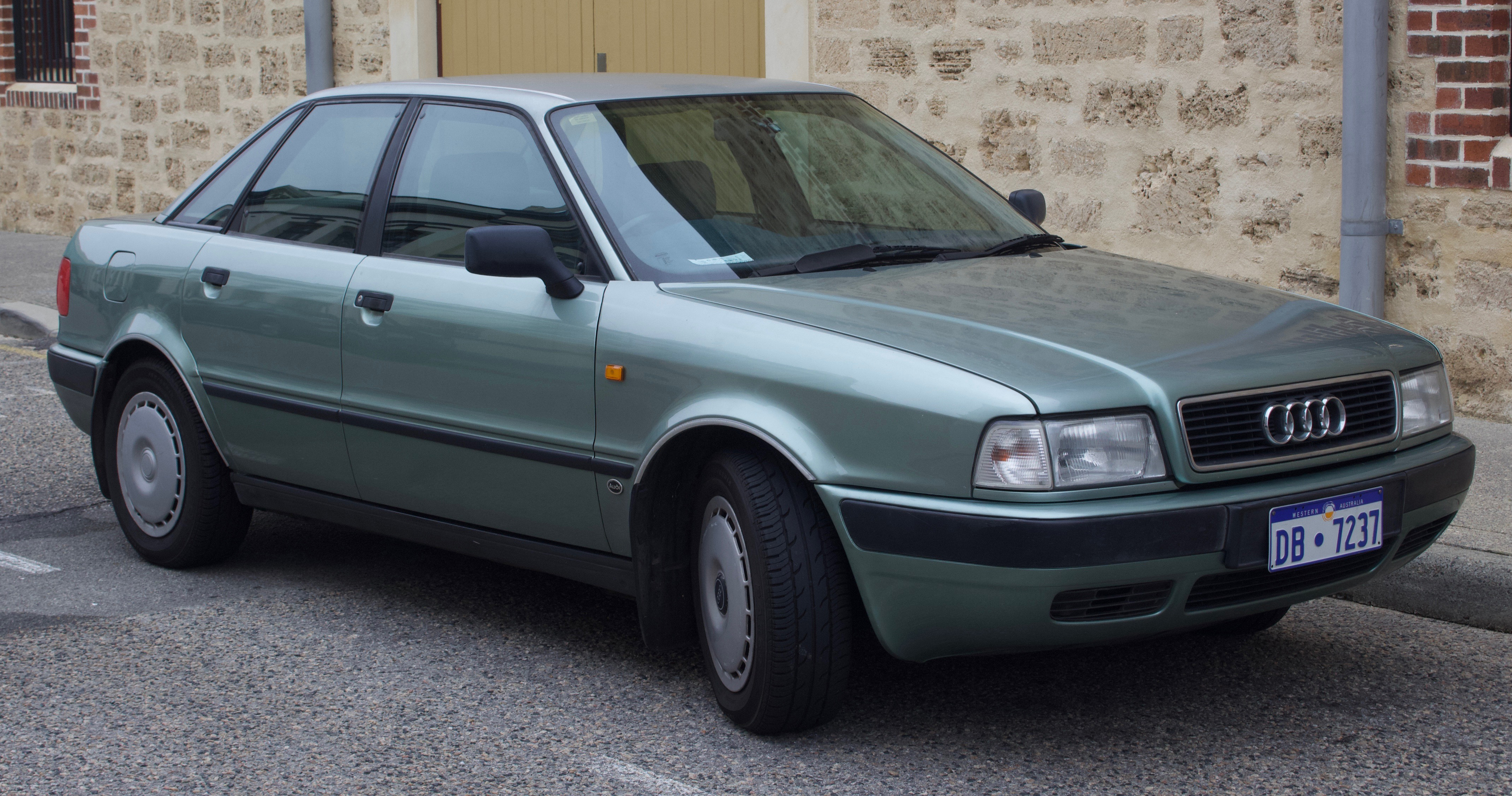 1992-1995 Audi 80 (8C) 2.0 E sedan. Photographed in Fremantle, Western Australia, Australia.